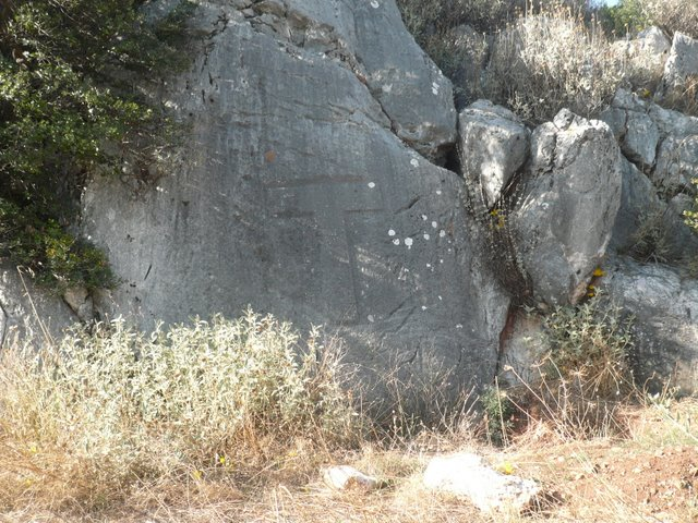 T of Fokaeis in Acropolis of Steirida, Boeotia, Greece